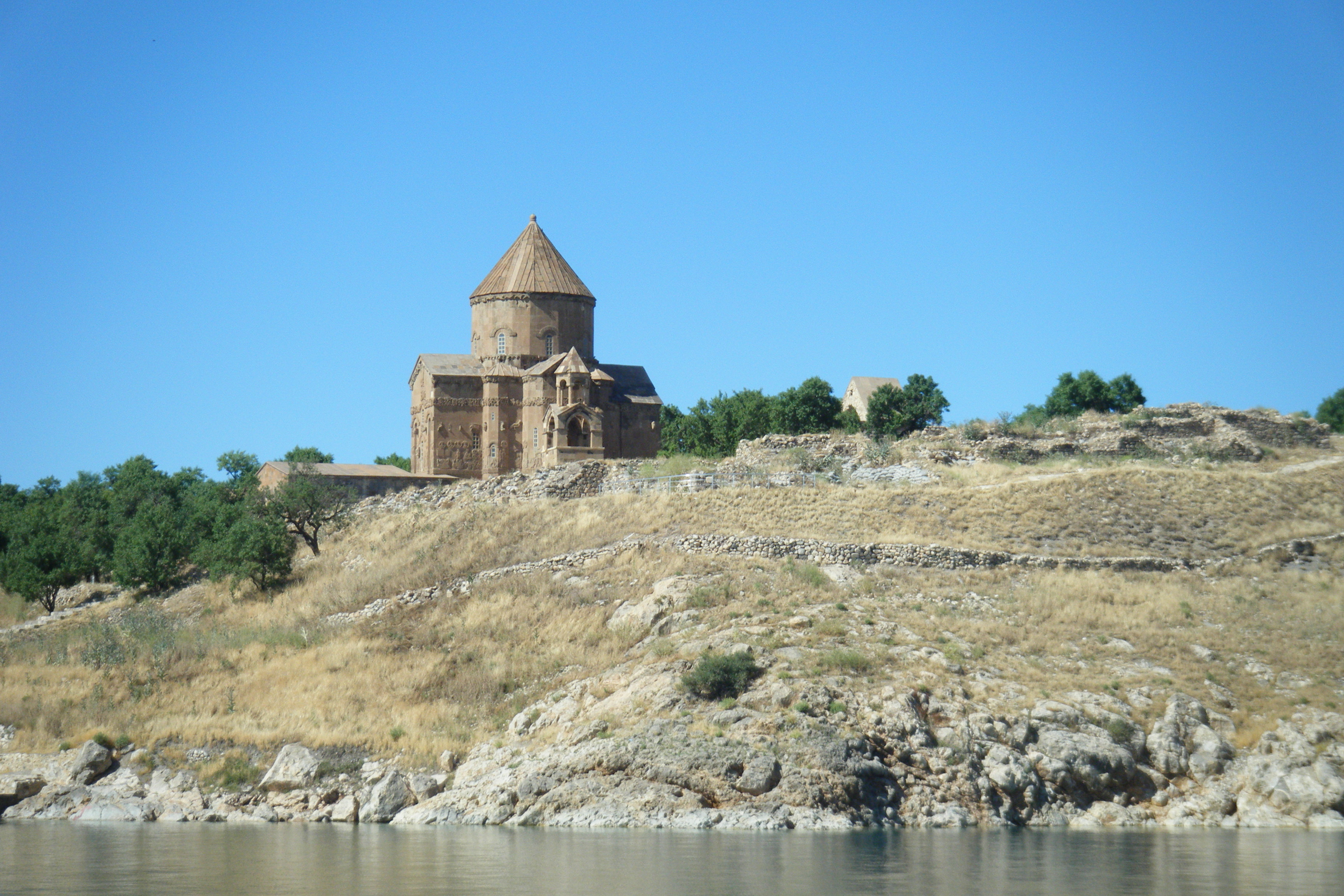 Akdamar Church